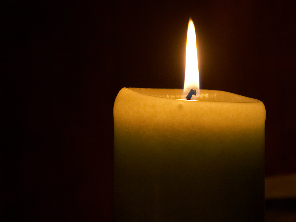 Close up of a candle flame.